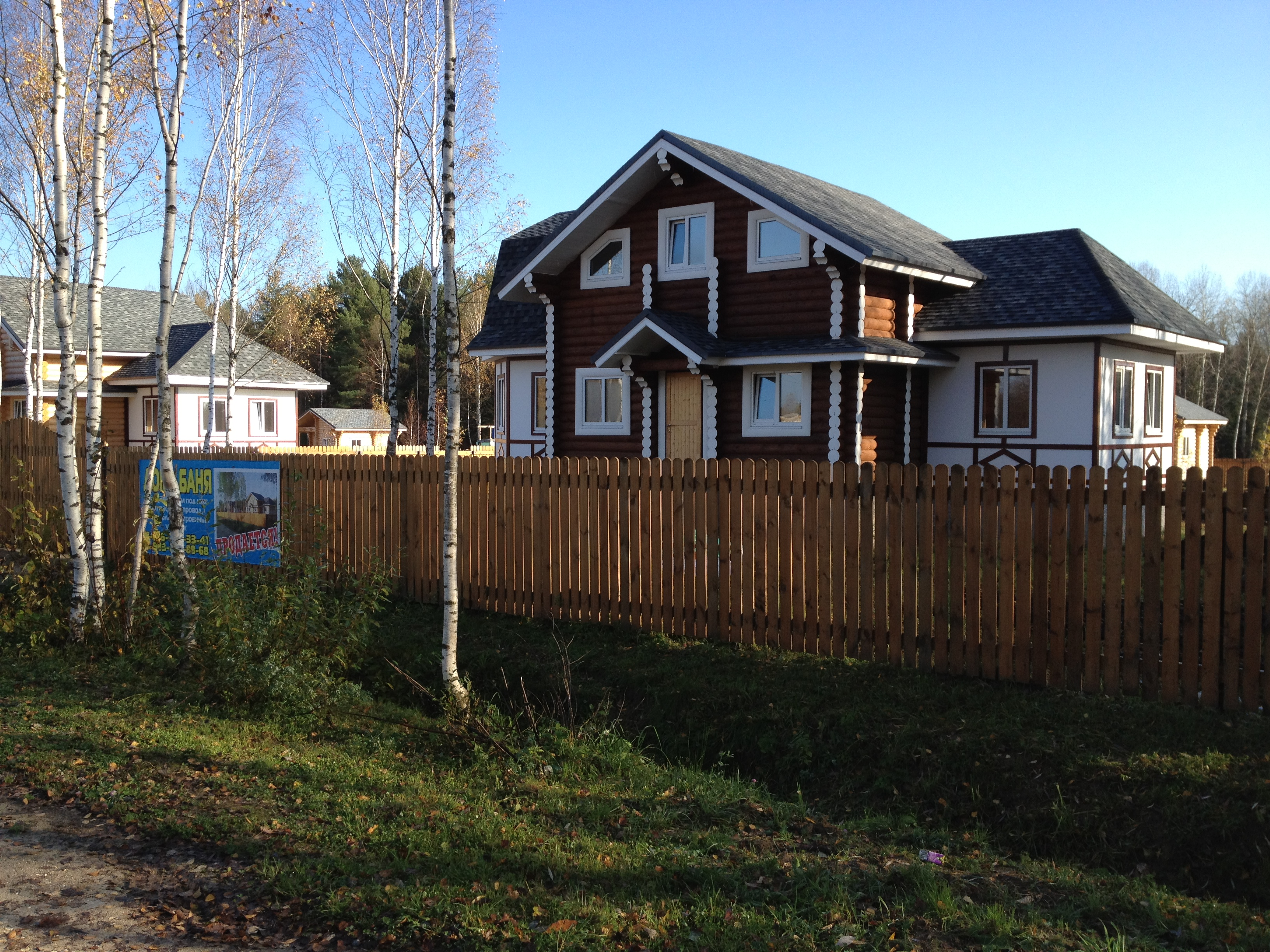 Privetino (Taldomsky district, Moscow oblast). Newly constructed cottages.